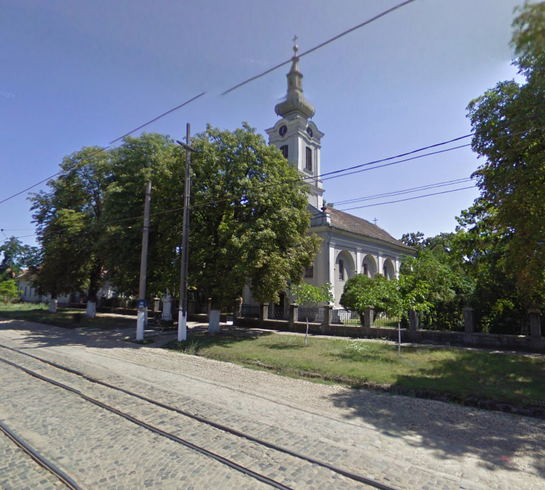 micalaca